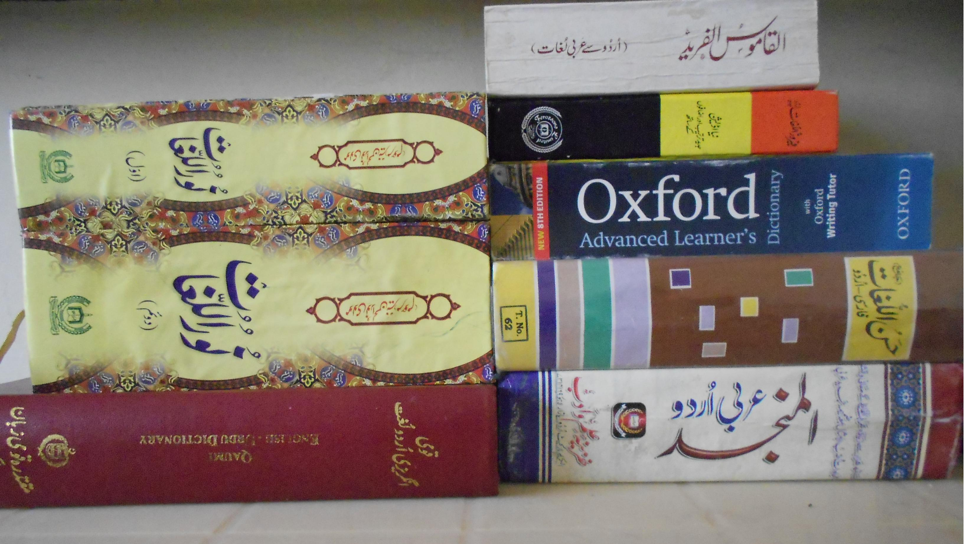 Urdu, Arabic, Persian & English Dictionaries